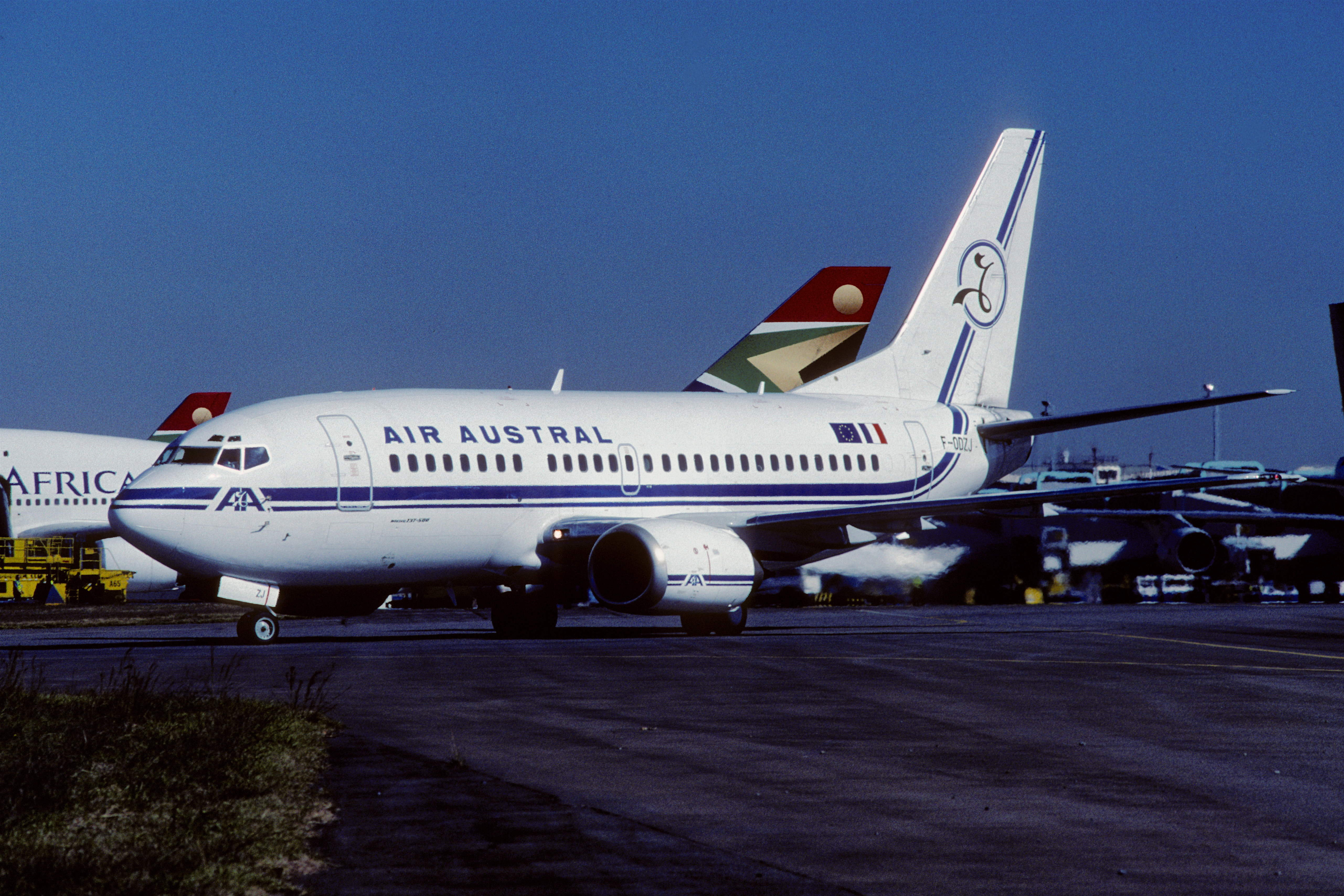 Air Austral Boeing 737-53A; F-ODZJ@JNB, May 2000/ CVB